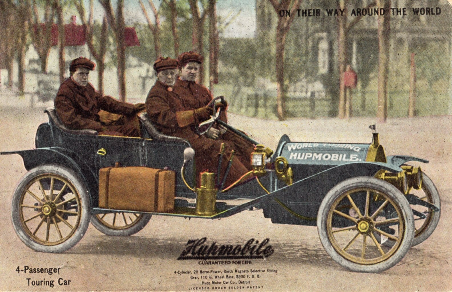 1911 Hupmobile Model 20 4-Passenger Touring Car "On their way around the world"